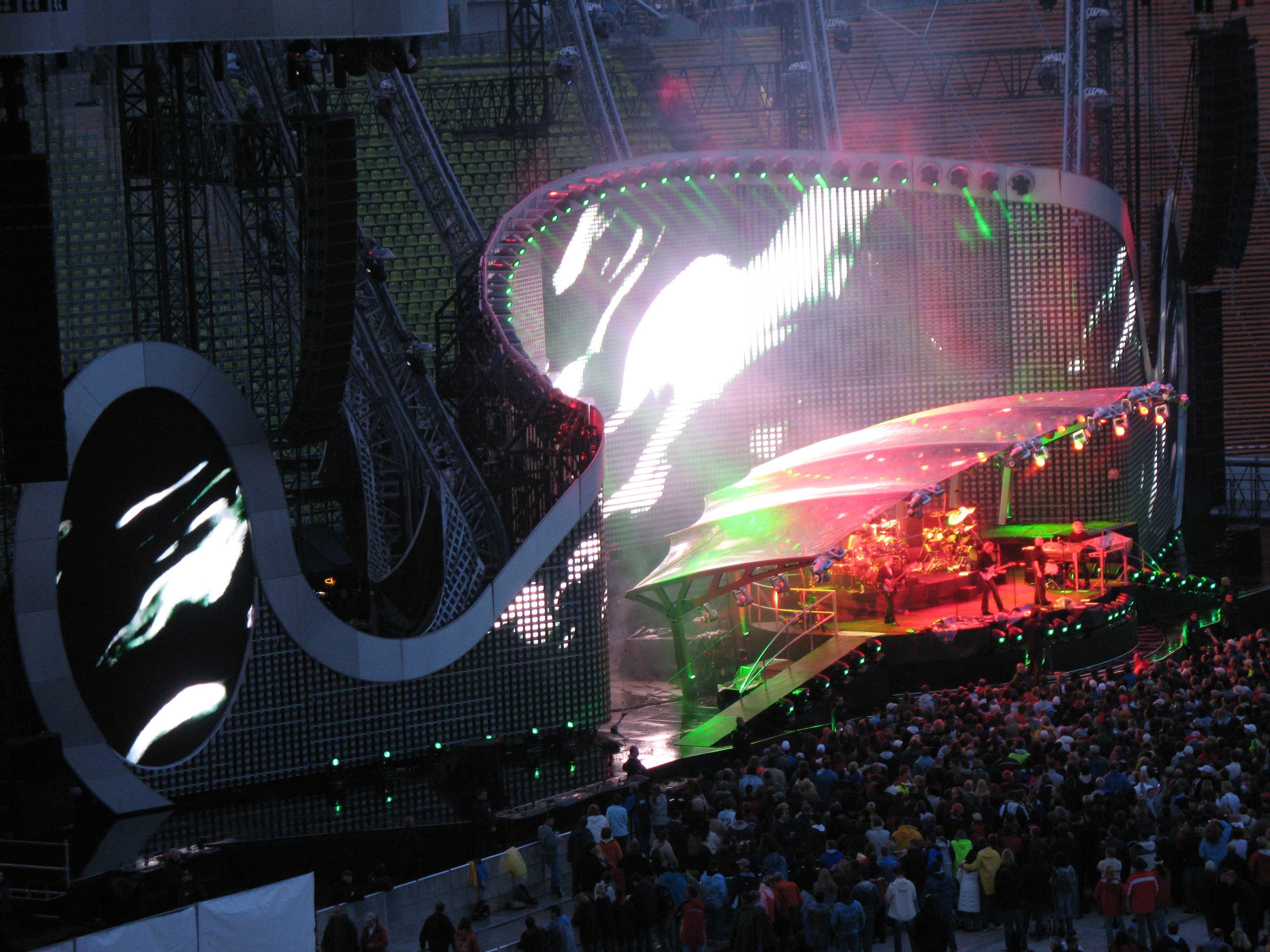 Genesis performing "Home By the Sea" at the Olympic Stadium, Munich, Germany